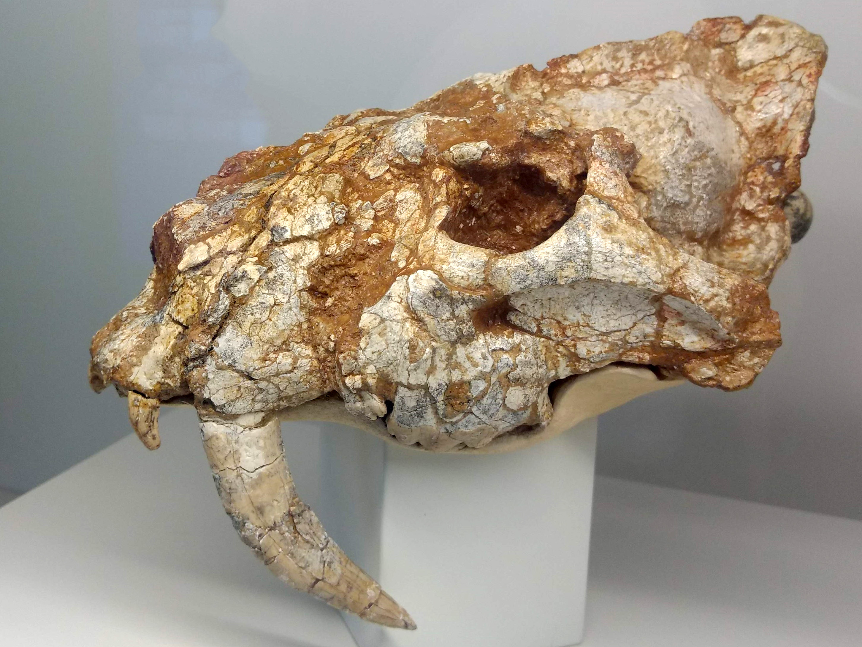 Cranium of Albanosmilus jourdani found in Can Mata, Els Hostalets de Pierola, Catalonia, Spain. Cosmocaixa (Barcelona)